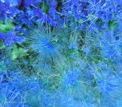 Cyanotrichite Locality: Grand View Mine (Last Chance Mine; No. 1 Pat claim 3591; No. 5 Pat claim 3592a; No. 4 Pat claim 3592a; Canyon Copper Mine; Grand Canyon Mine), Cape Royal, Horseshoe Mesa, Grand Canyon National Park, Grandview District, Coconino County, Arizona, USA (Locality at ) Size: 8.6 x 5.3 x 3.5 cm. Cyanotrichite is a Copper Aluminum sulfate and well-crystallized specimens like this one are few and far between. It was found in the mid-1960s in the Grandview mine, which existed in the Grand Canyon. The mine is long defunct, but when specimens were being recovered, they were some of the most incredible, and brightly colored specimens from Arizona, or anywhere else for that matter. This specimen is filled with dozens upon dozens of excellent, bright blue color, acicular (needle-like) radiating aggregates or "sprays" of Cyanotrichite associated with dark green Brochantite, lighter green Malachite, pale blue Chalcoalumite and rich blue Azurite. There is also a small tabular colorless crystal which is most likely Gypsum or Baryte. The needles of Cyanotrichite are very delicate, but are equally stunning to view. Ex. Richard Kosnar Collection.